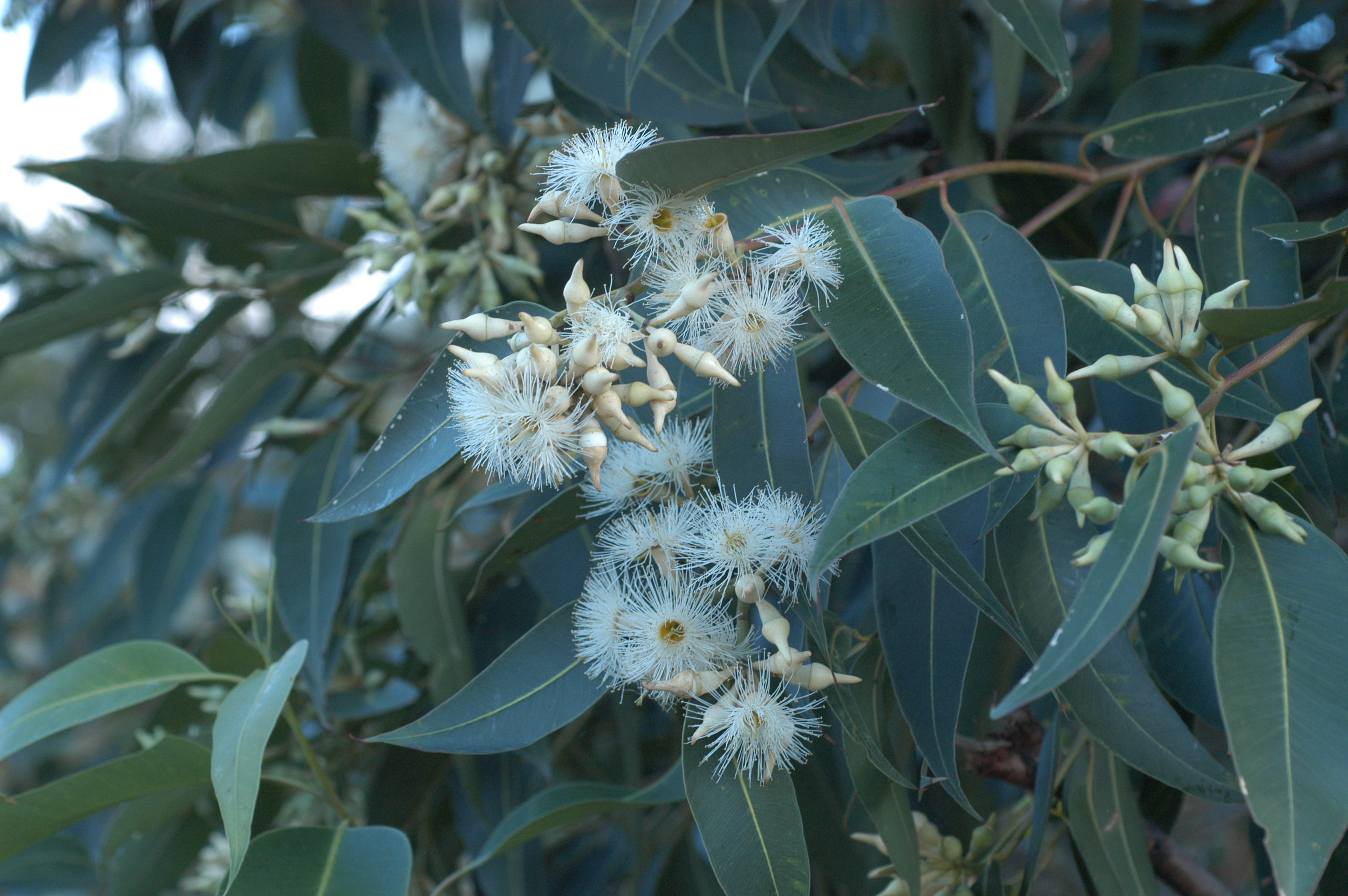 Eucalyptus robusta, flowers and buds, Gosford, New South Wales